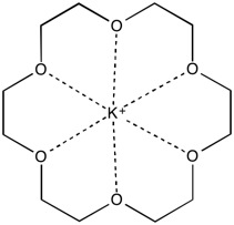 crown ether showing potassium cation guest